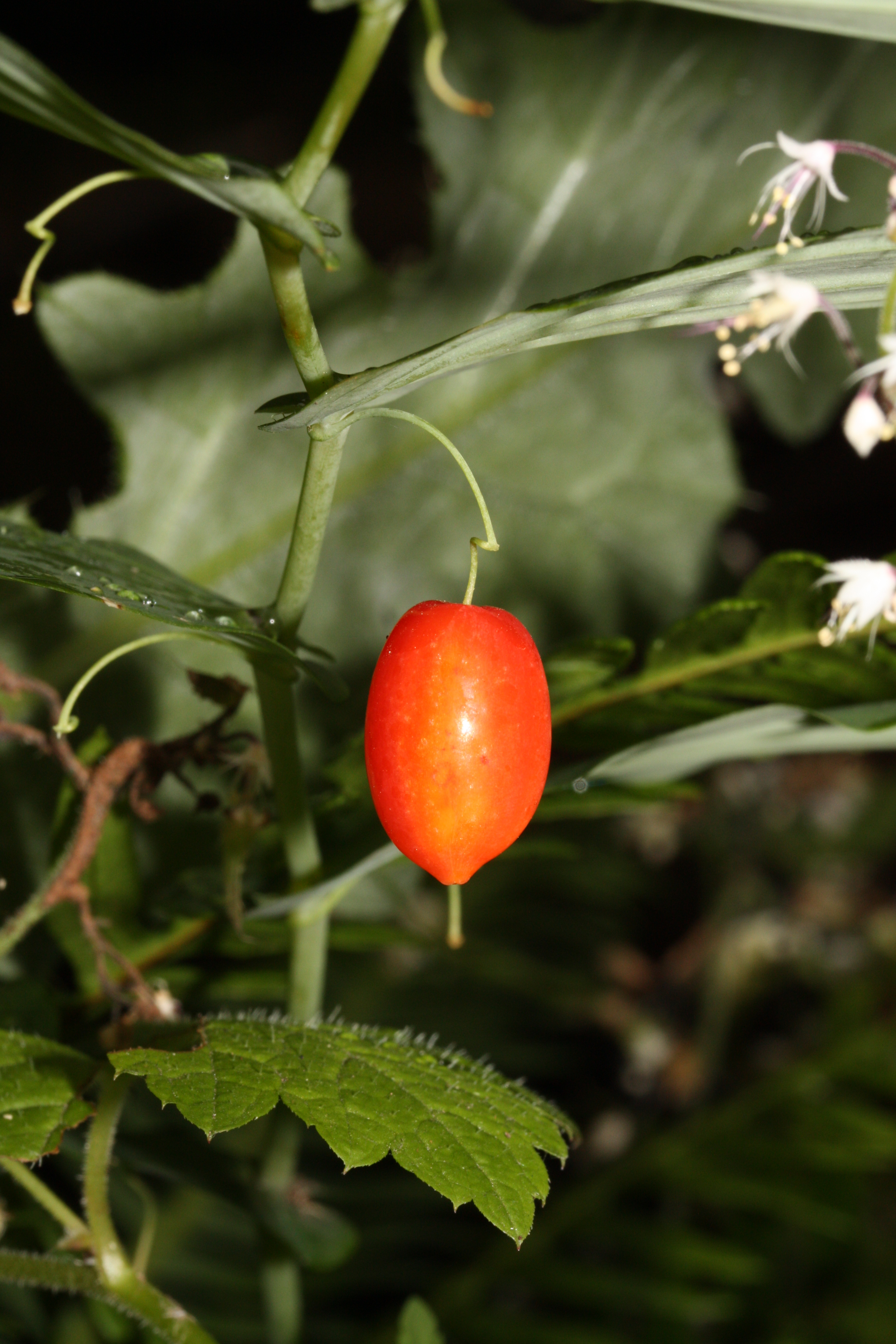 Claspleaf Twistedstalk